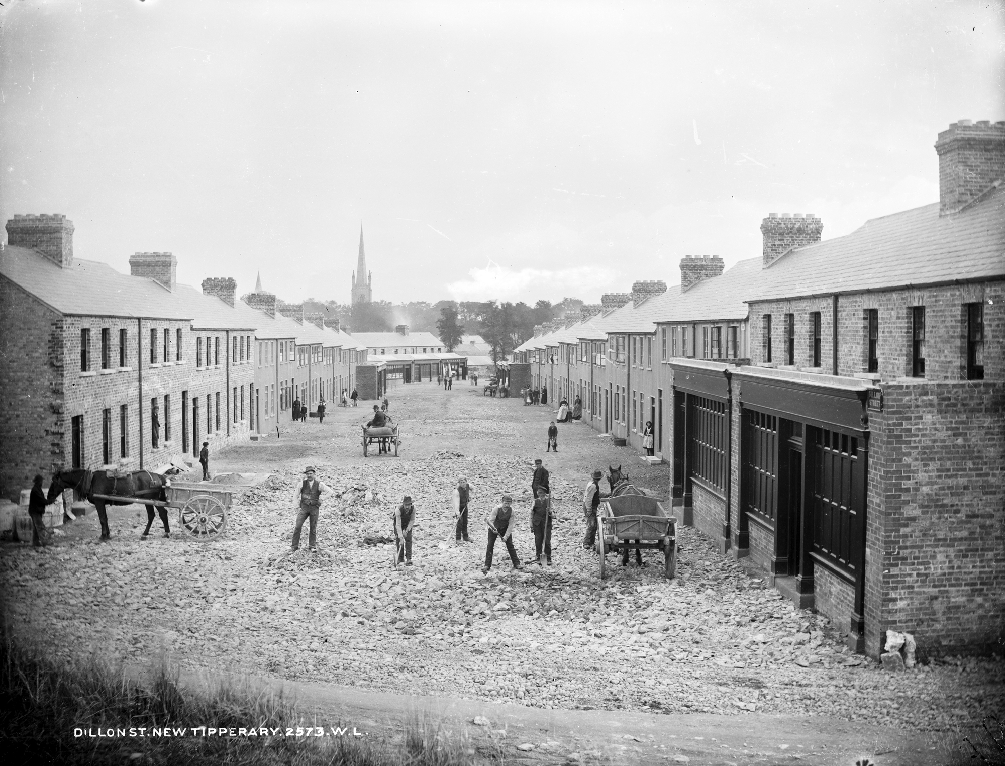 I know that there's a story behind this rather innocuous looking street - Dillon Street - so I hope it will pique your interest. While it was within Tipperary town, this was very definitely New Tipperary! Date: Circa 1890? NLI Ref.: L_ROY_02573